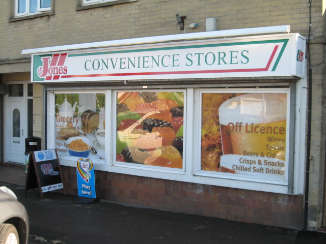 A branch of Jones stores in Westfield.